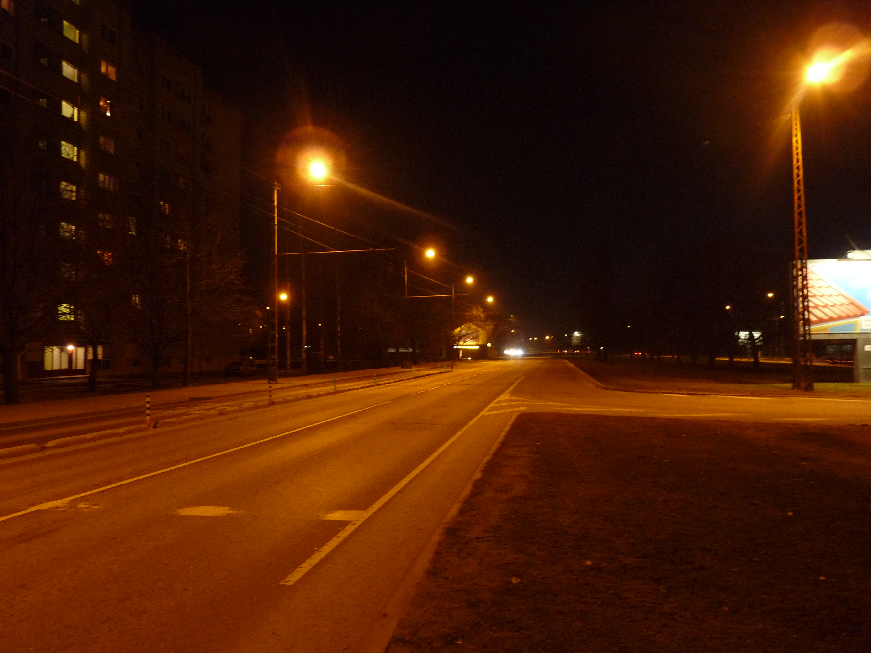 Paldiski highway at late evening